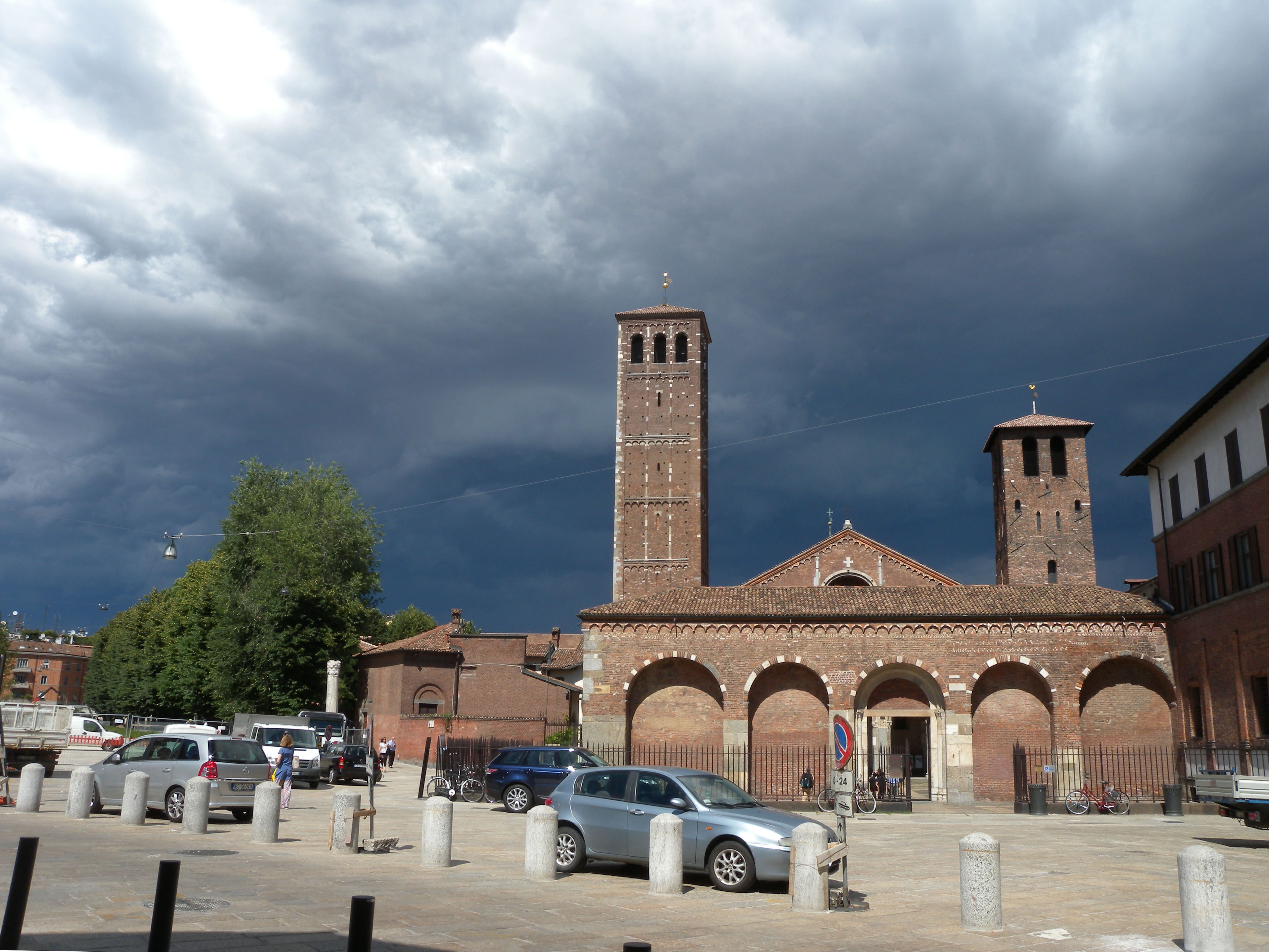 Sant'Ambrogio (Milan) - Overall view